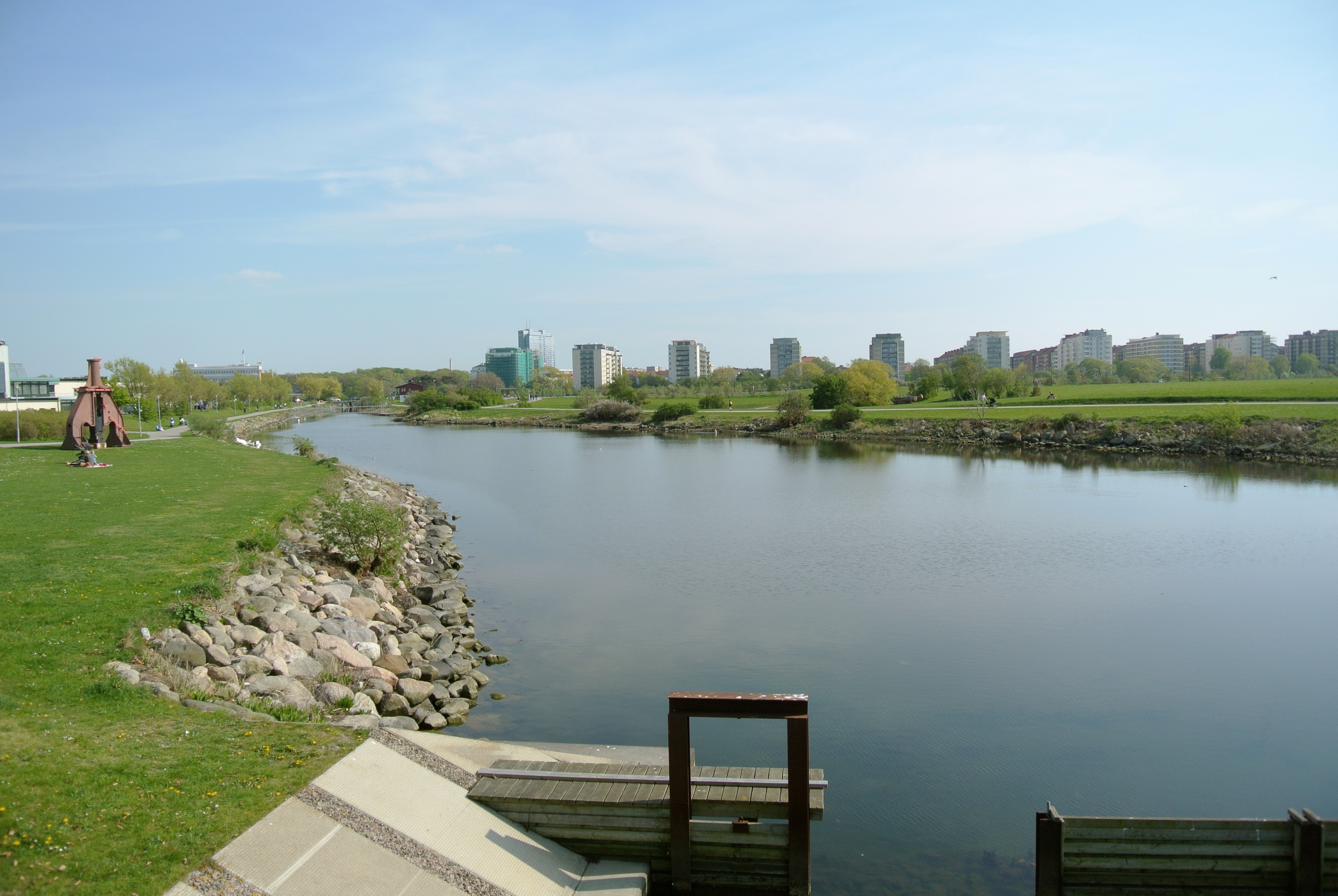 Västra Hamnen (Norr district) on the left, Turbinkanalen (foreground) and Slottsparken (background) at the center, and Ribersborgsstranden (Innerstaden district) on the right side.